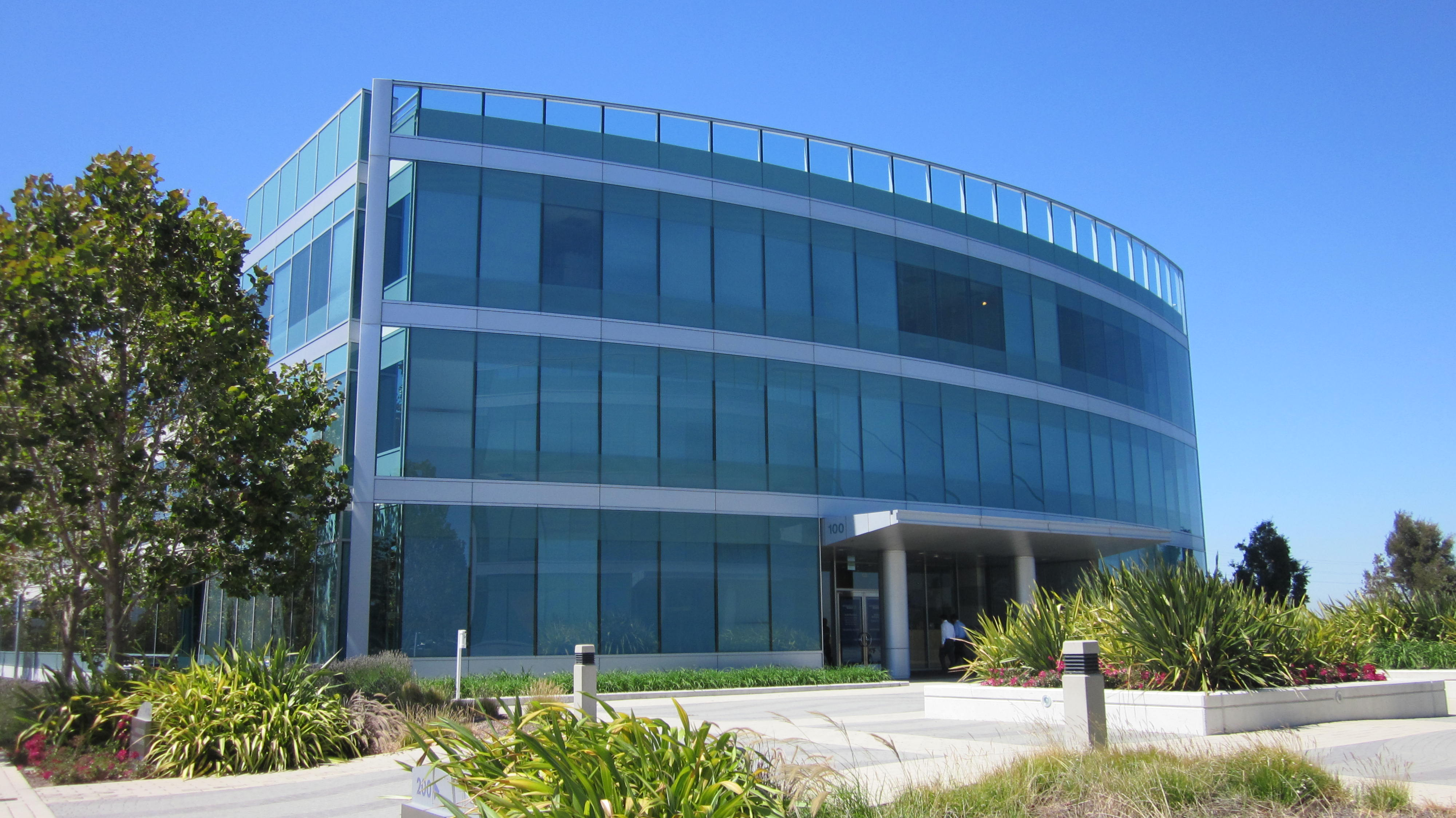 Infomatica headquarters in Redwood City, California.